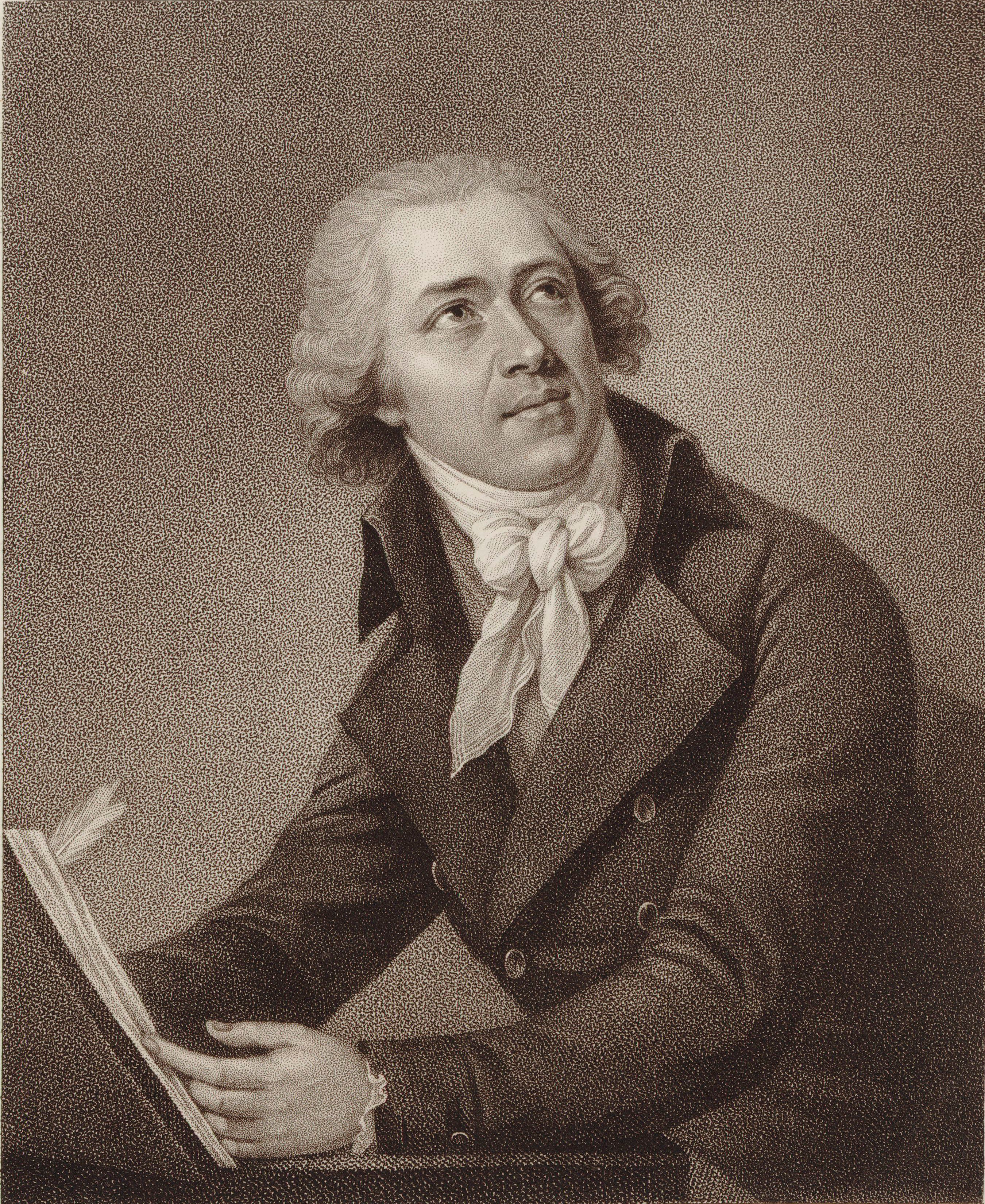 Depicted person: Leopold Koželuh